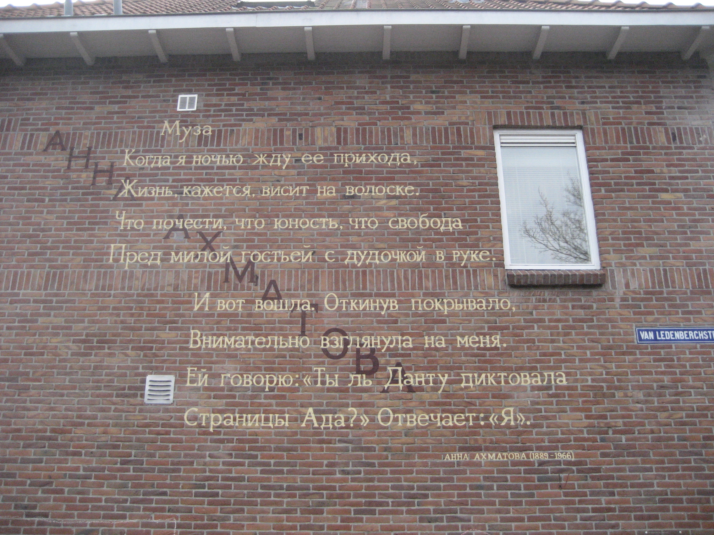 Poem Муза (Muze) by Anna Achatova on a wall in Leiden (The Netherlands). Street: Van Ledenberchstraat, corner Johan de Wittstraat